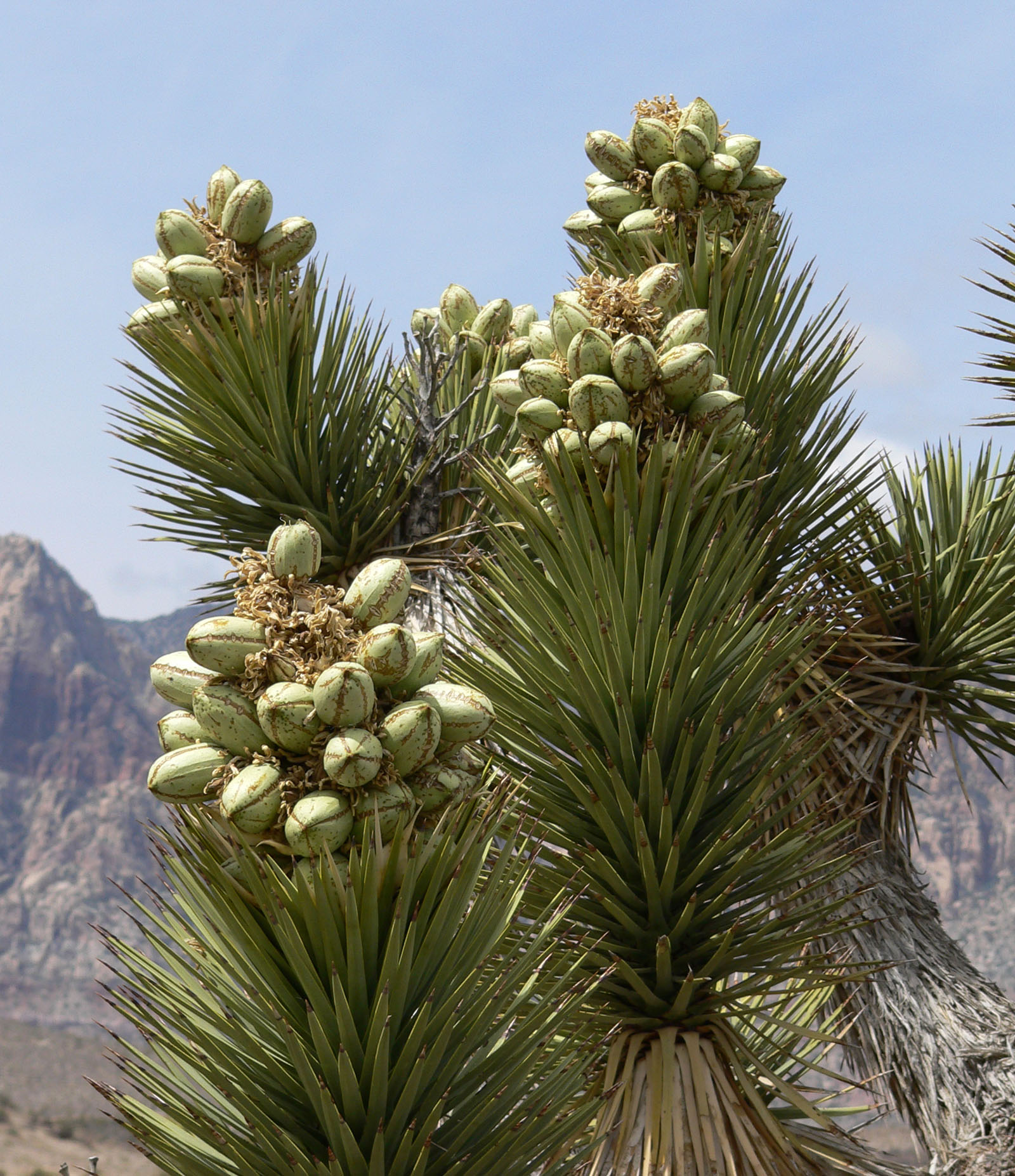 Yucca brevifolia fruits, on Blue Diamond Hill, Spring Mountains, southern Nevada